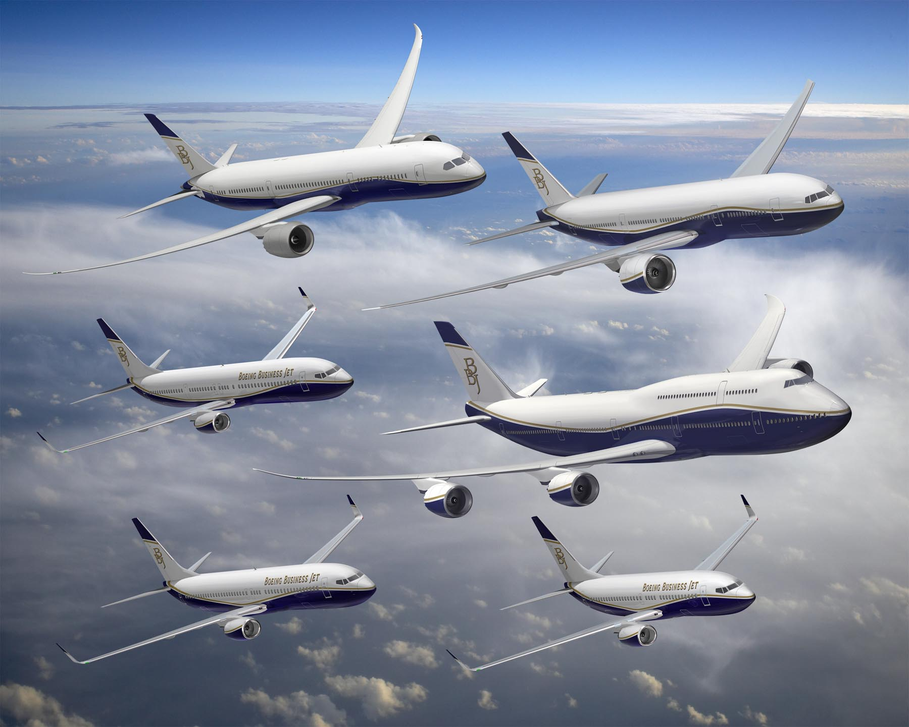 Boeing's commercial aircraft in Boeing Business Jet livery. K63803